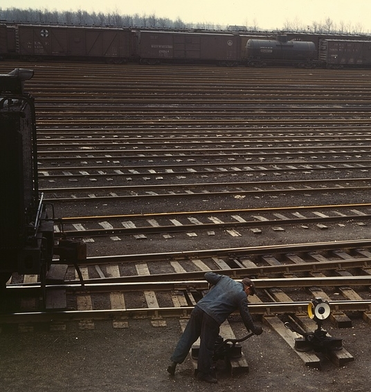 Cropped image of ("Switchman throwing a switch at C & NW RR's Proviso yard, Chicago, Ill.") Medium: 1 transparency : color. Reproduction Number: LC-DIG-fsac-1a34657 (digital file from original transparency) LC-USW361-563 (color film copy slide) Rights Advisory: No known restrictions on publication. Call Number: LC-USW36-563 [P&P] Repository: Library of Congress Prints and Photographs Division Washington, D.C. 20540 USA Notes: Transfer from U.S. Office of War Information, 1944. General information about the FSA/OWI Color Photographs is available at Title from FSA or OWI agency caption. Additional information about this photograph might be available through the Flickr Commons project at